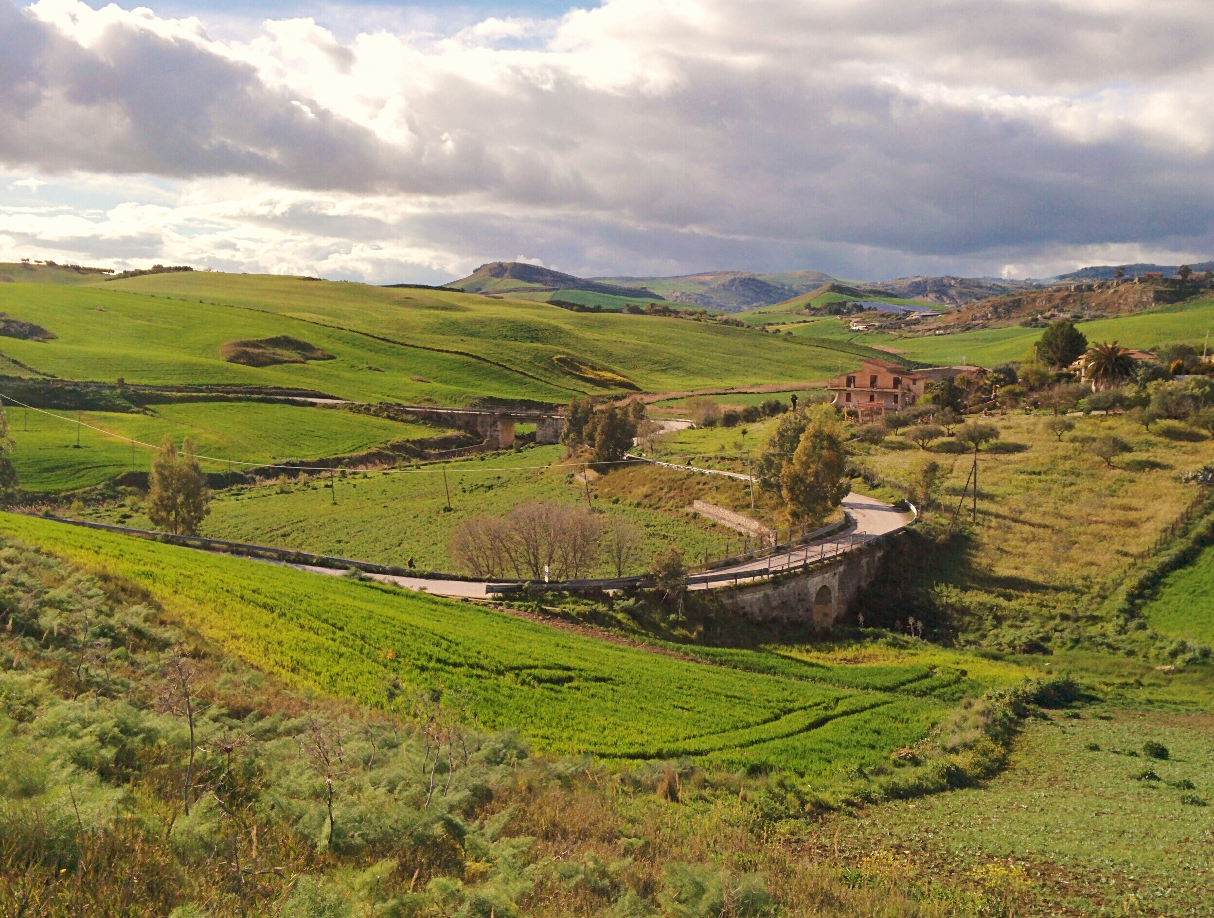 Little bridges in road strada provinciale 1 (province of Caltanissetta) in Bifaria (Caltanissetta).